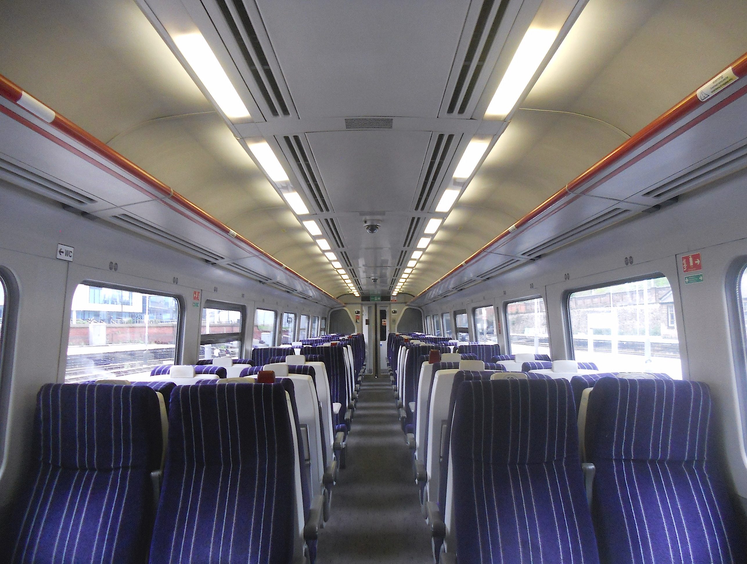 The interior of a Northern Rail refurbished Class 158/9